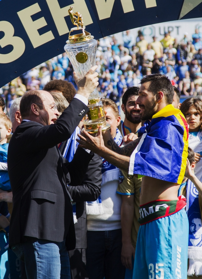 30.05.2015. Россия, Санкт-Петербург, стадион «Петровский». СОГАЗ-Чемпионат России 2014/2015, 30 тур, «Зенит» — «Локомотив». Церемония награждения команды «Зенит» золотыми медалями и кубком Чемпиона России.